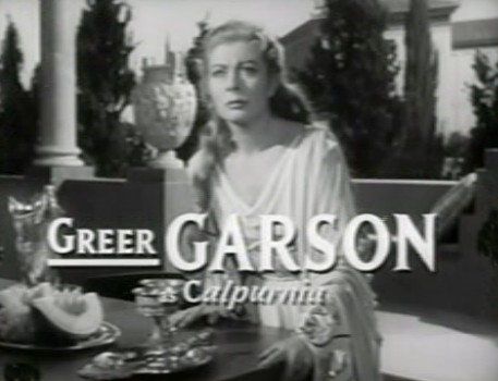 Cropped screenshot of Greer Garson from the trailer for the film Julius Caesar